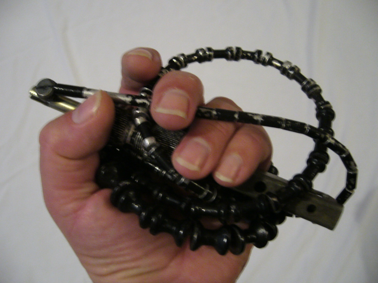 Kulikow antenna. Wound-up in hand.